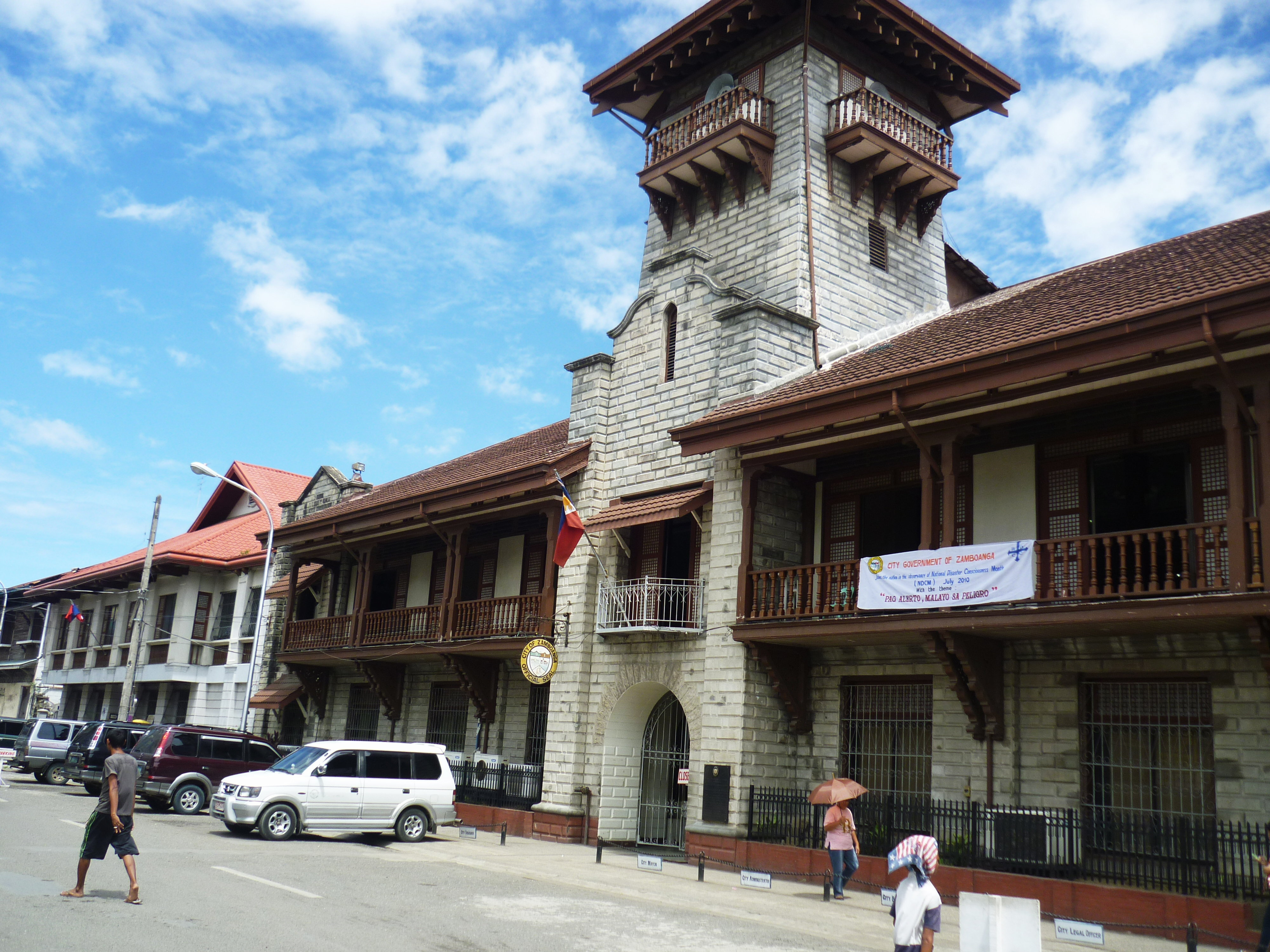 Zamboanga City Hall